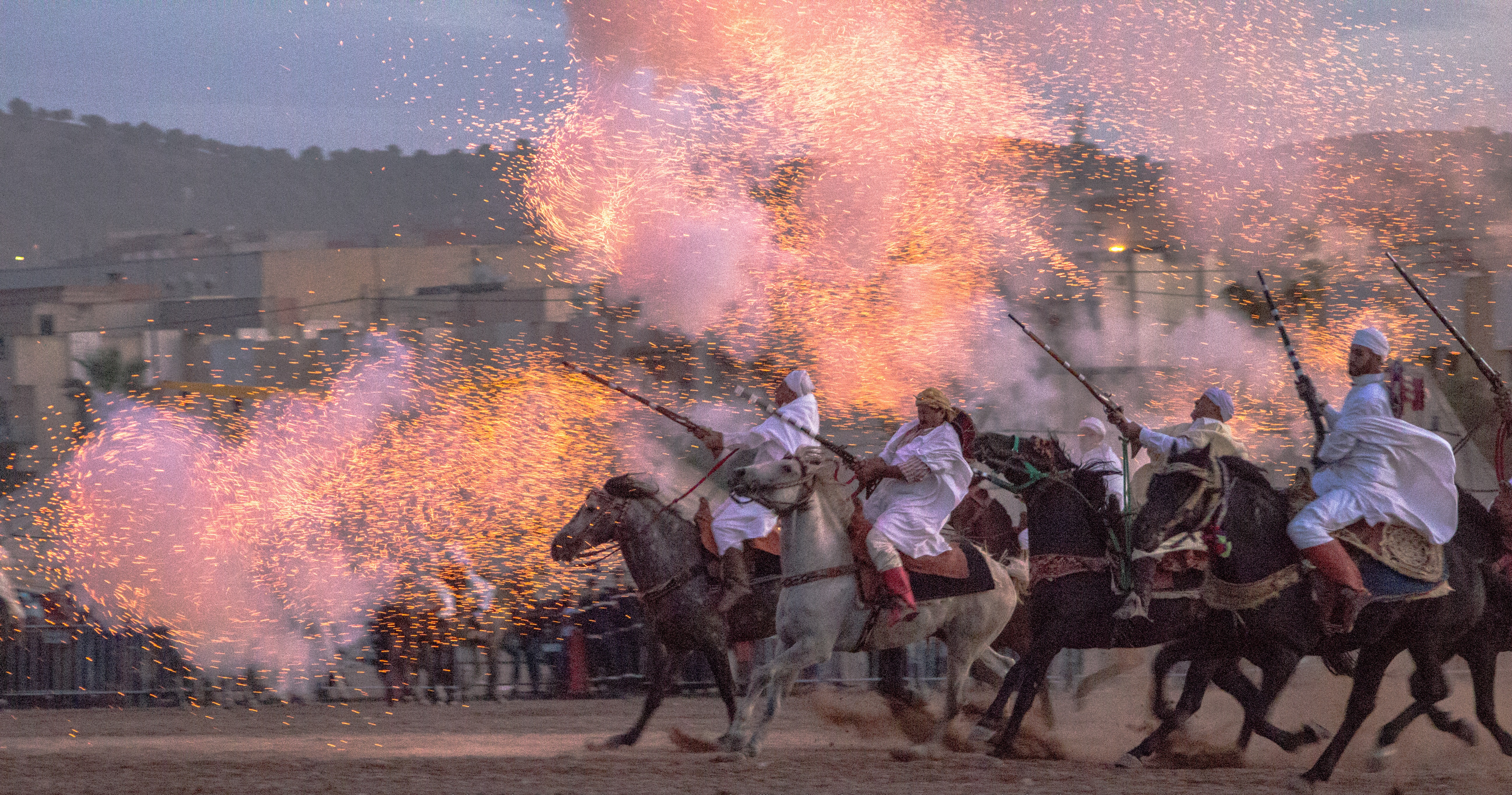 This is an image with the theme "Play" from: Morocco